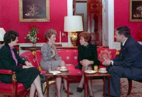 Nancy Reagan and Raisa Gorbachev have tea in the White House Red Room